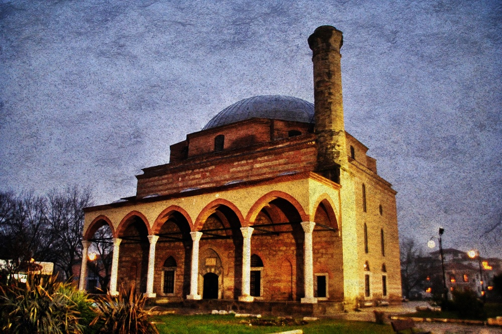 Koursoum Mosque, city of Trikala, Greece.